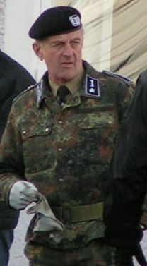 Nationalsocialistisk Front (NSF) holding a demonstration in Växjö, Sweden, with Legion Wasa leader Curt Linusson in camouflage.